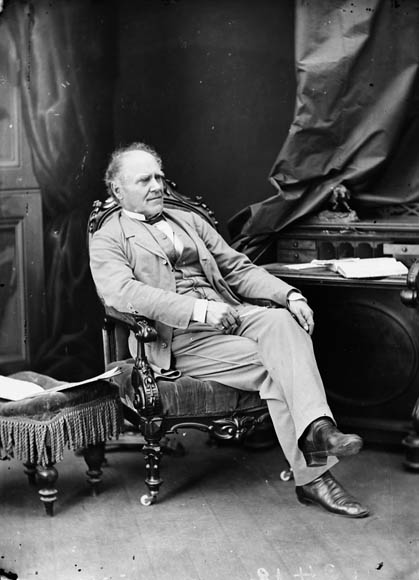 Joseph Howe